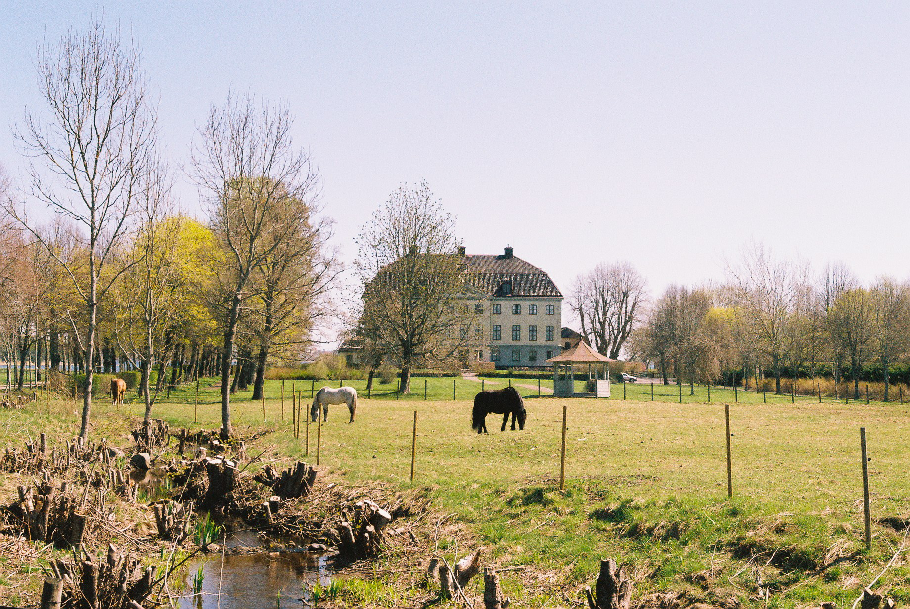 Erstavik